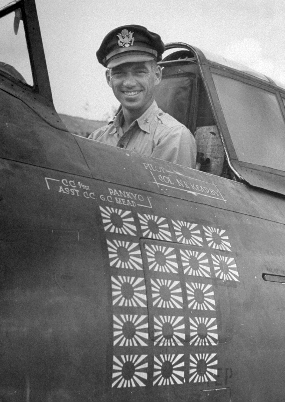 Photograph of World War II Medal of Honor recipient Neel E. Kearby